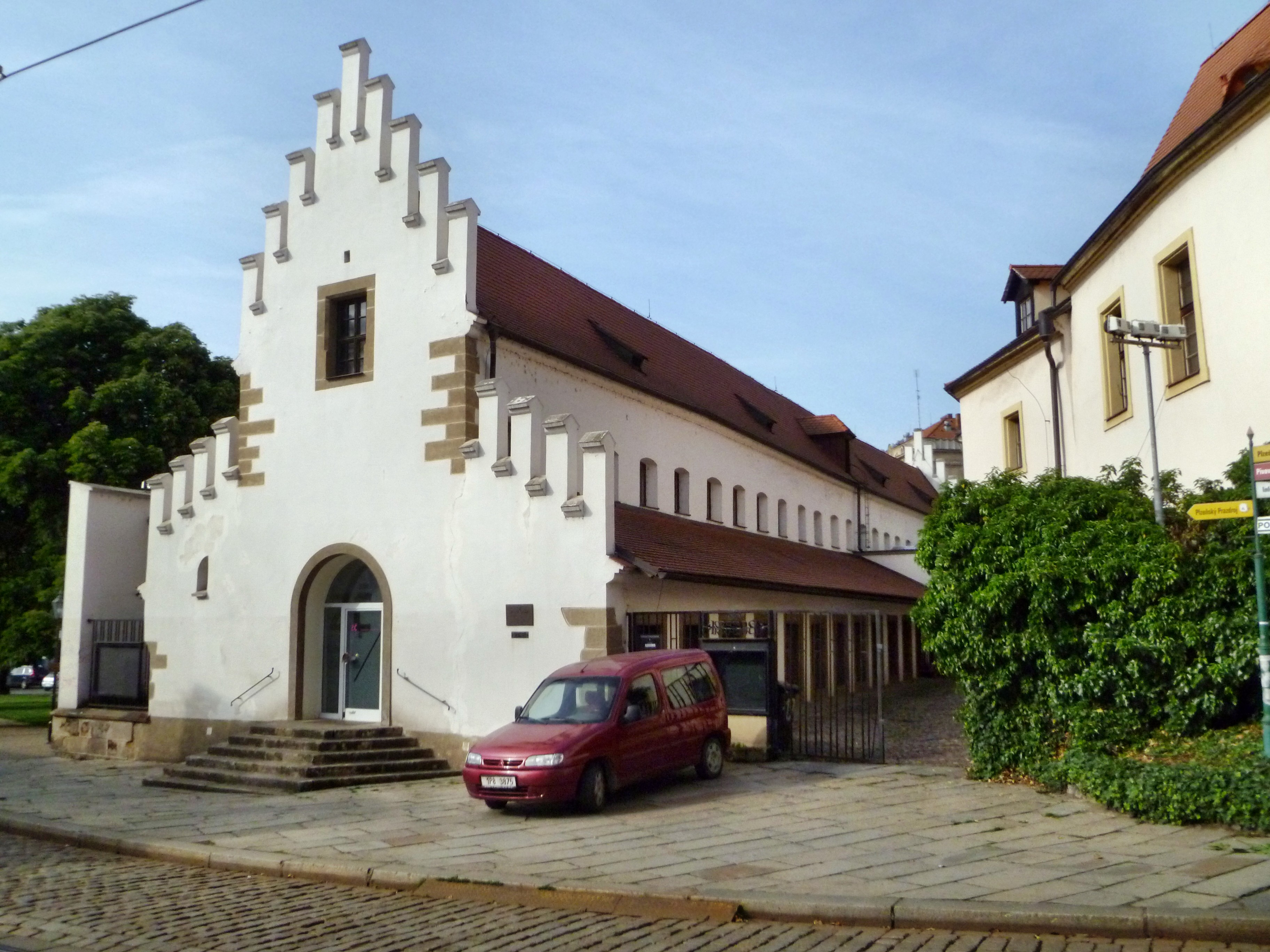 Former flesh market hall, Plzeň, Czech Republic